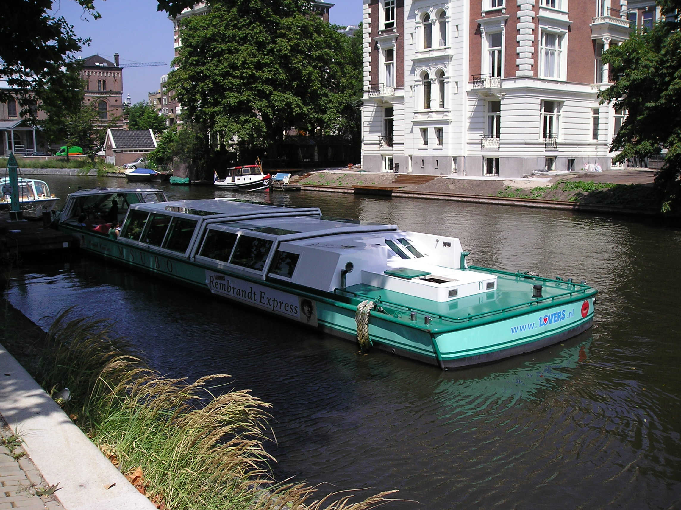 Tourists' boat in Amsterdam, near the State Musem.